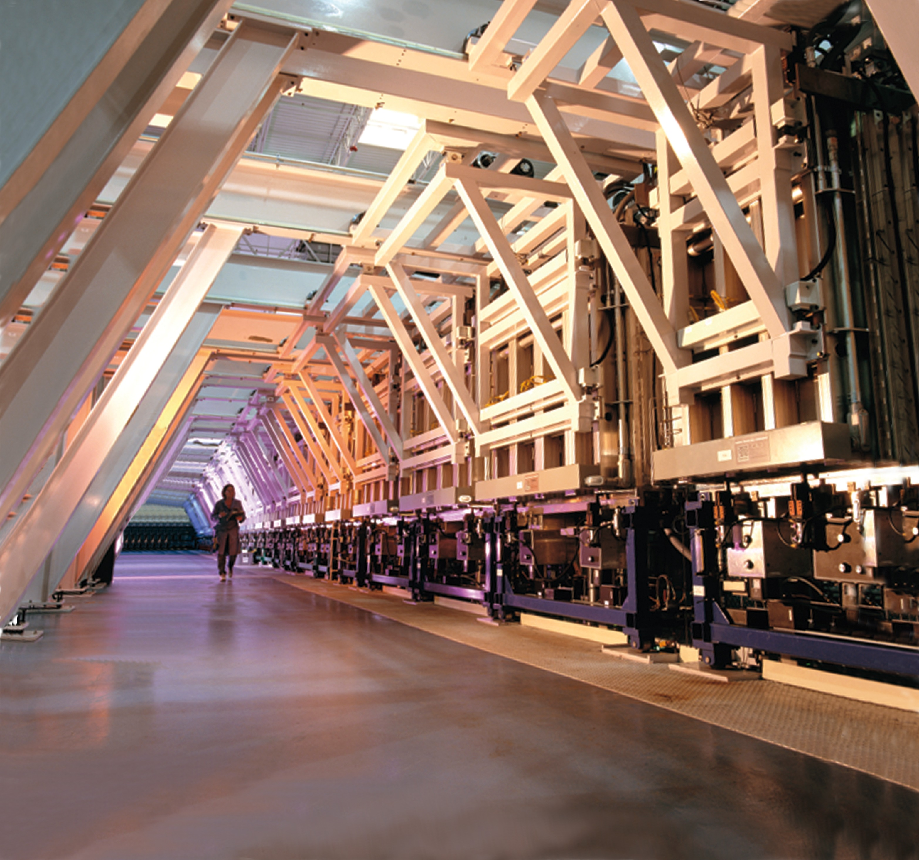 This first United Solar production line in Auburn Hills, Michigan, has the capacity to produce 30 megawatts of solar modules in one year.